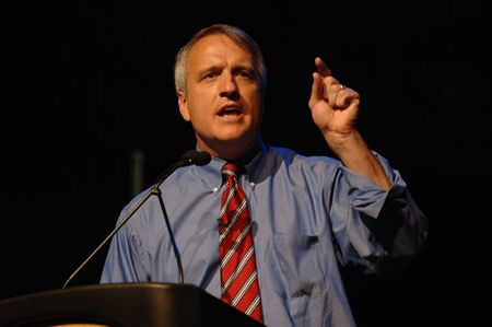 photo URL Webmaster granted permission for use when asked to release under GFDL. No conditions were specified. Photographer unknown.